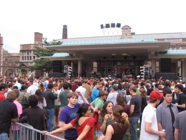 Crowd gathering for Reel Big Fish to perform at Spring WILD 2007, Washington University in Saint Louis Category: Washington University in St. Louis